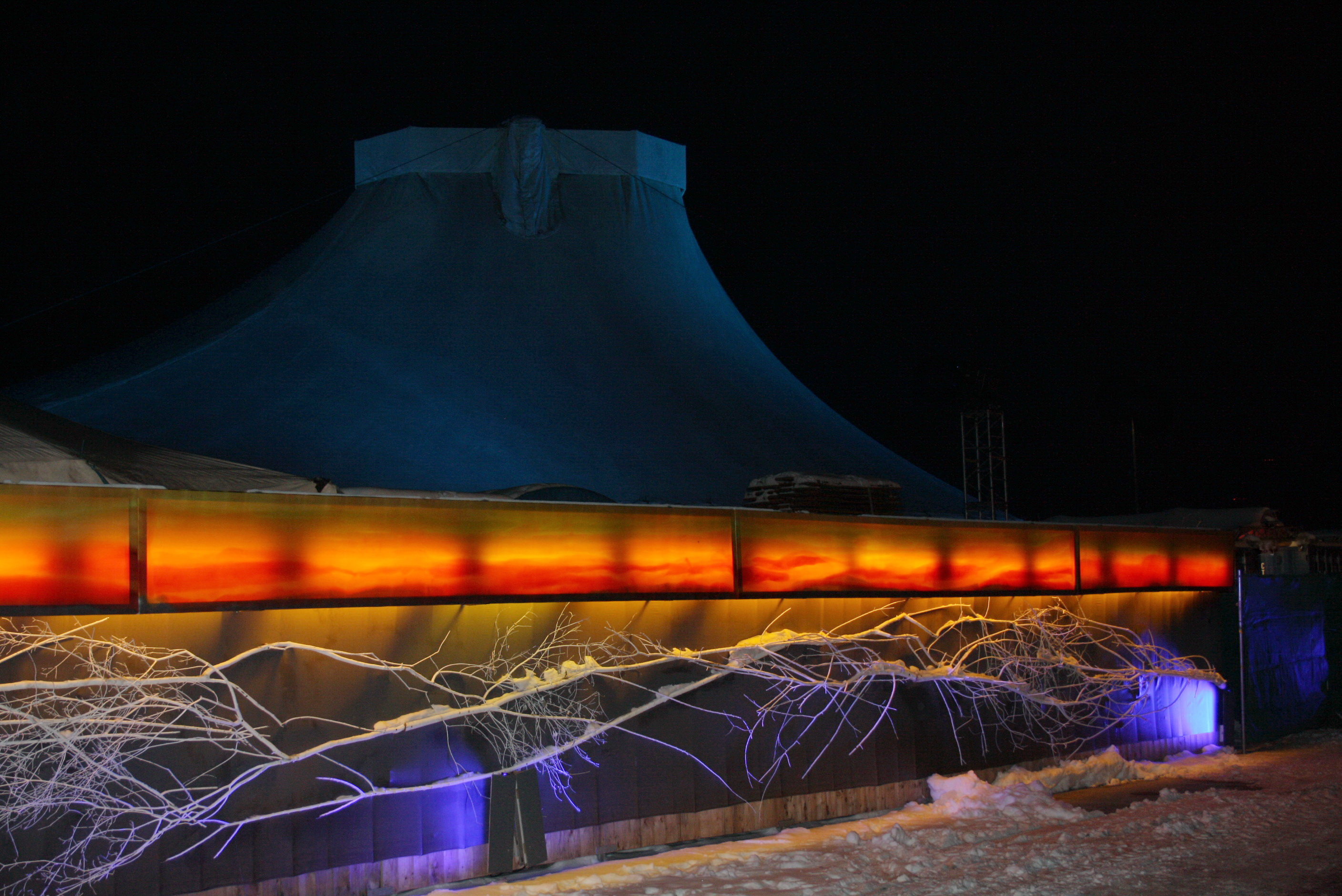 Tent on the Tollwood 2010.